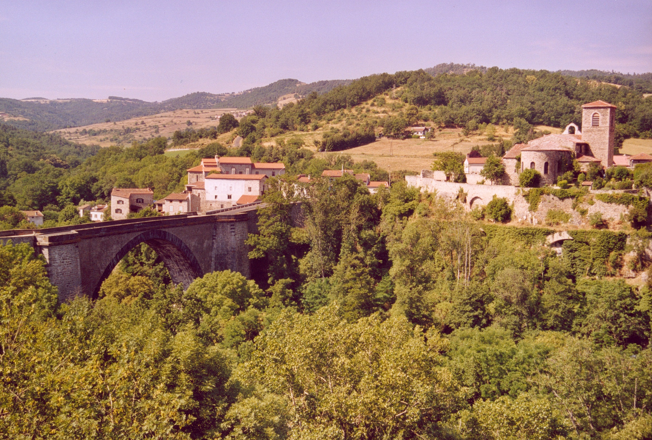 Vieille-Brioude in Haute-Loire, France